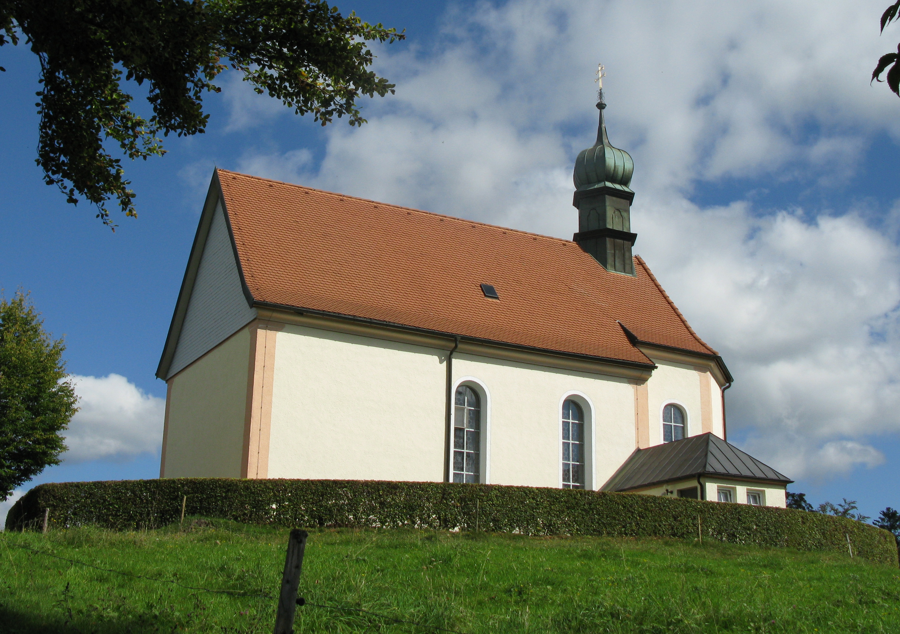 Ohmenkapelle in St. Märgen